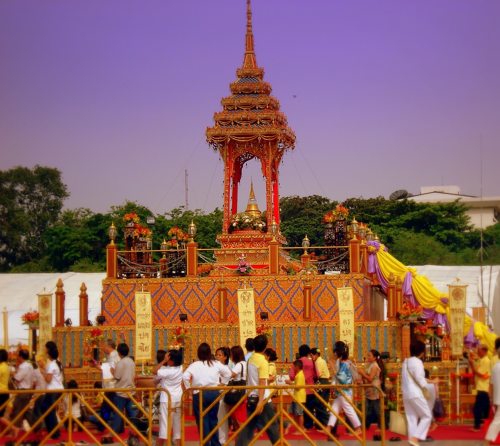 Buddha's relics altar on Wesak Day in Sanam Luang, Bangkok, Thailand